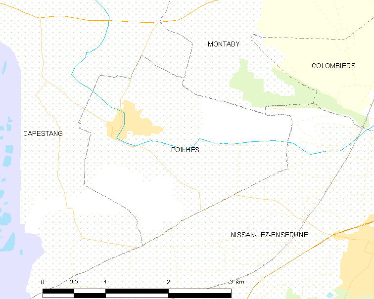 Map commune FR insee code 34206.png - Poilhes